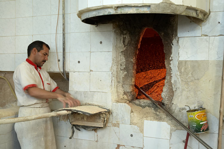 Sangak being prepared in Tajrish, Tehran